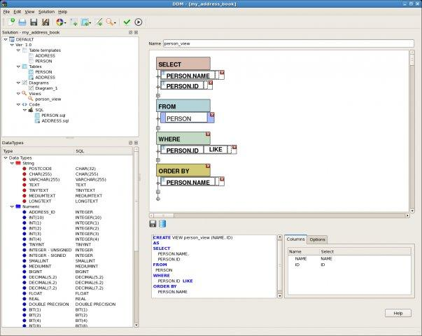 Database Deployment Manager screen-shot of the query builder